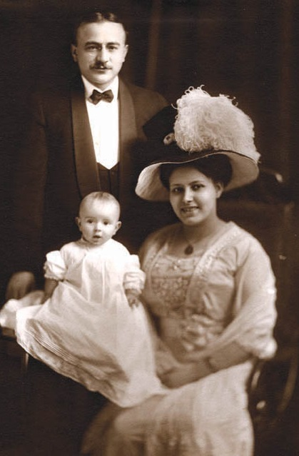 Curt Teich with his family, ca 1910, including, Curt Teich, Sr., his wife Anna Louise, nee Niether (1889-1959) and Curt Teich, Jr.